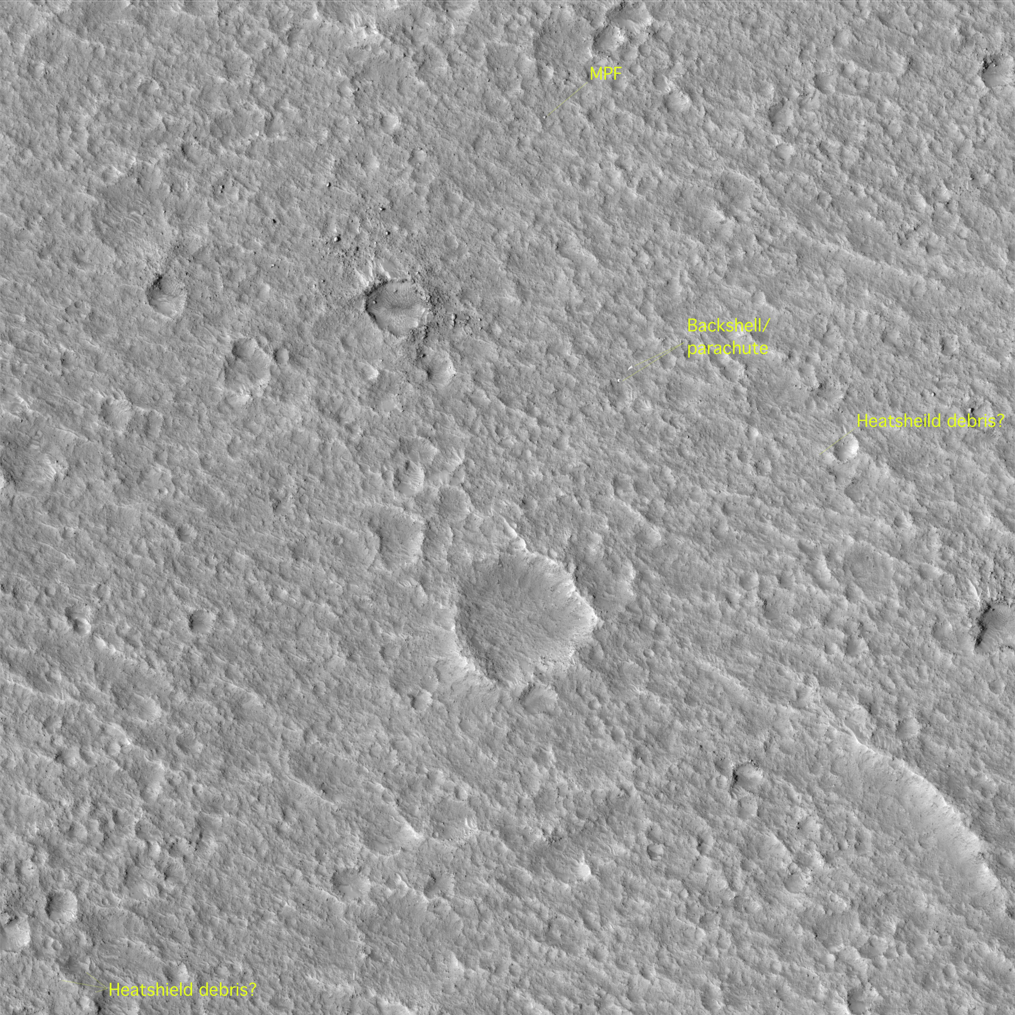 This image shows the Pathfinder lander on the surface. Zooming in, one can discern the ramps, science deck, and portions of the airbags on the Pathfinder lander. The back shell and parachute are to the south, and four features that may be portions of the heat shield are identified. Two of these were visible from Pathfinder. At the time of that mission, the nearest object was provisionally identified as the back shell. However, analysis of the HiRISE image and reinterpretation of Pathfinder images, plus an improved understanding of how hardware looks on the Martian surface based on ground-level and orbital images of the Mars Exploration Rover landing sites, indicate that the glint is bright enough that it may be insulating material from inside the heat shield. The back shell and parachute were out of sight behind a ridge from Pathfinder's ground view. One of the three bright features, identified as heat shield debris, was also identified during the Pathfinder mission.